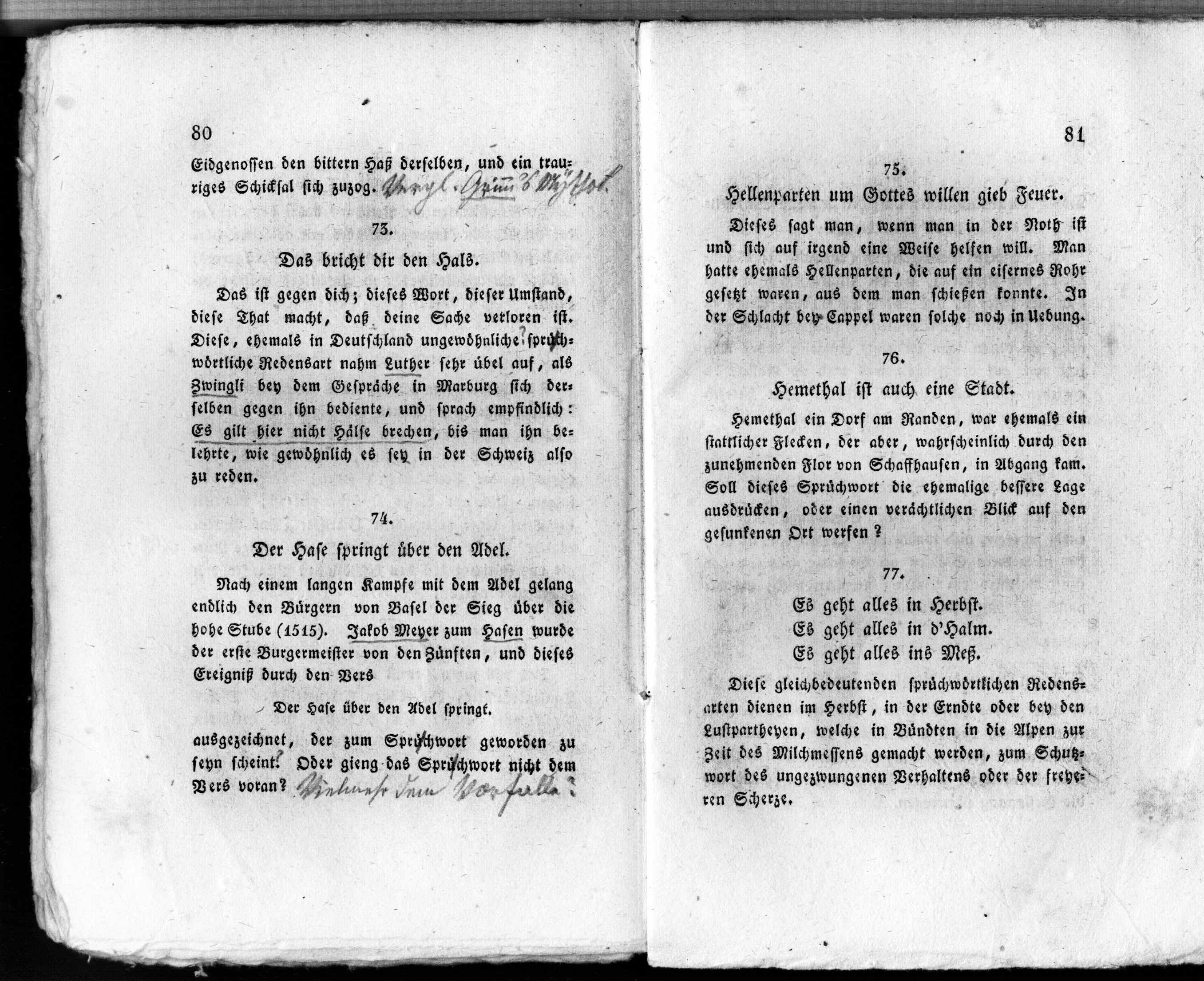 This is a scan of the historical document